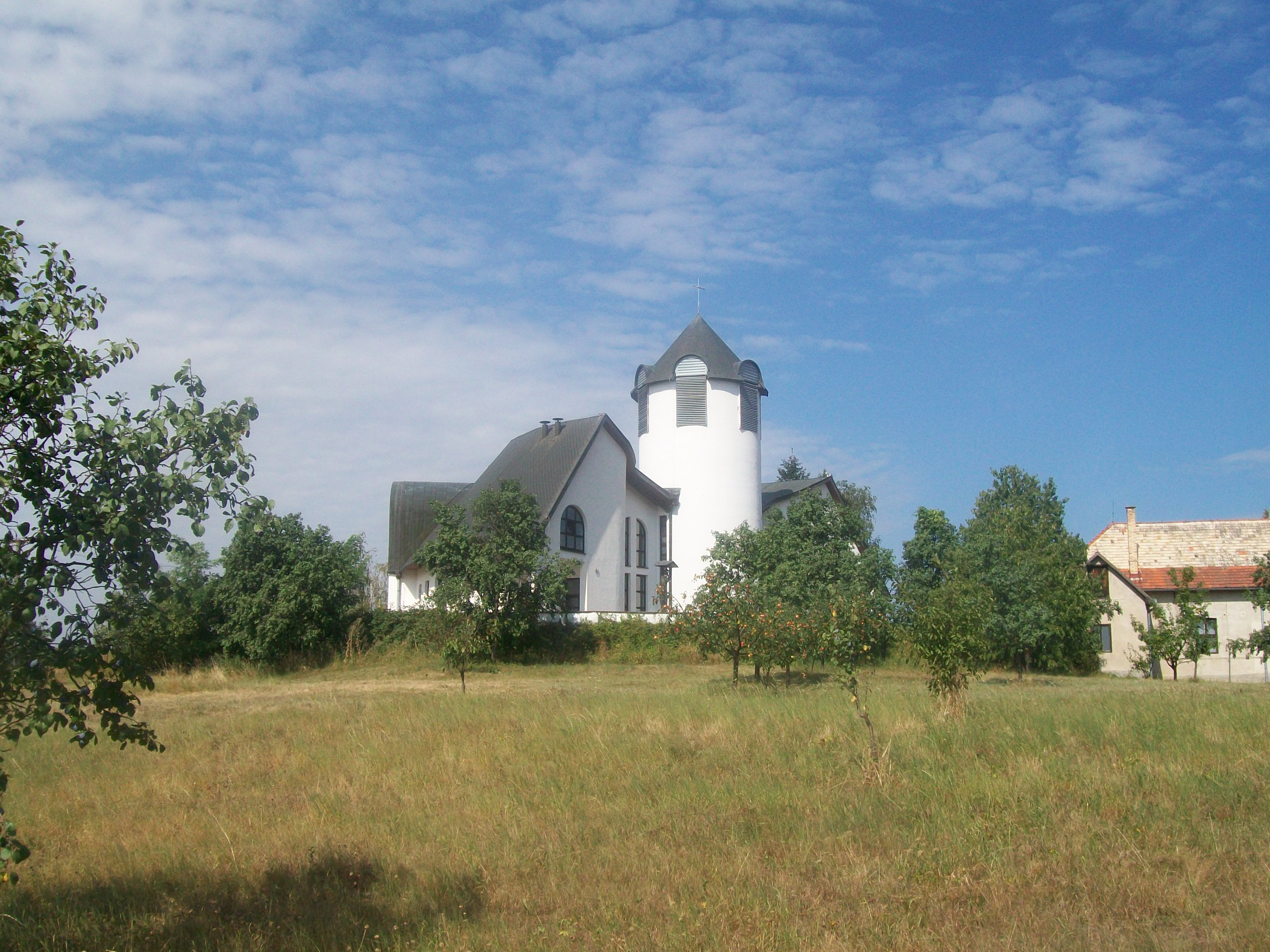 Lutheran Church in Tomášovce